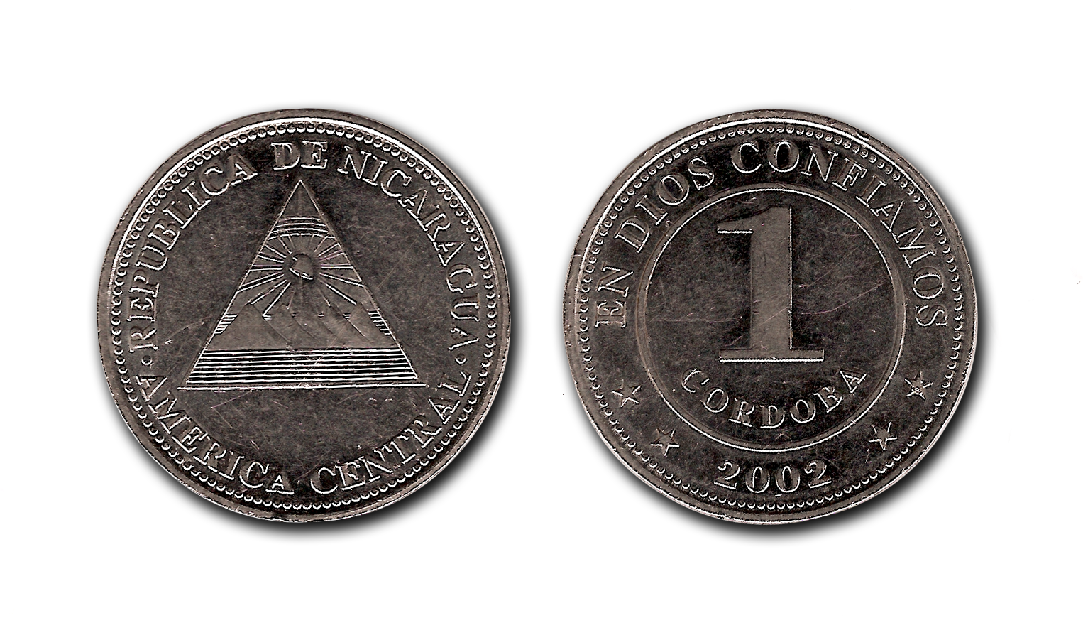 This is a scan of the obverse and reverse of a 1 córdoba coin from Nicaragua